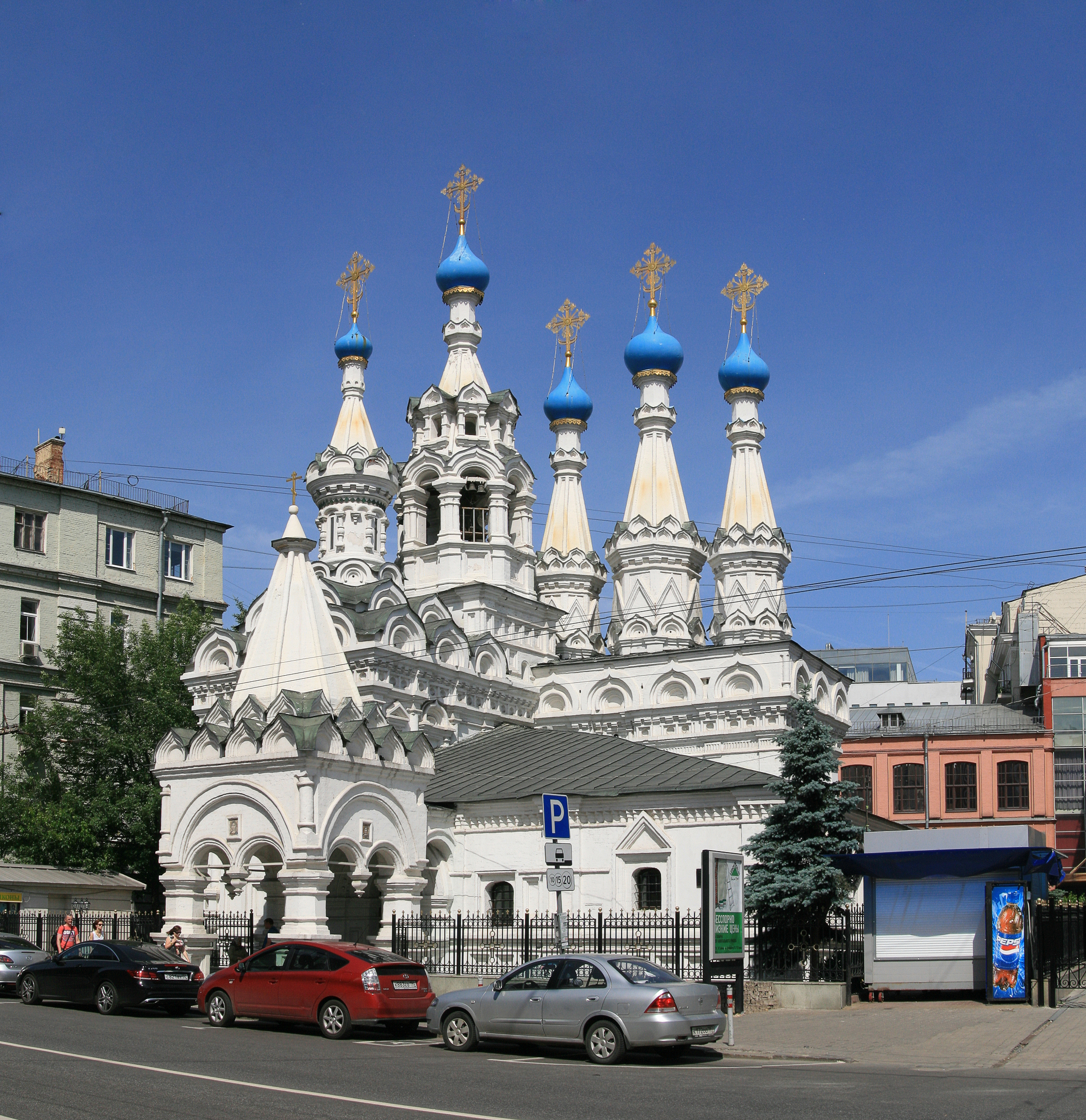 Church of the Nativity of the Theotokos in Putinki, Moscow